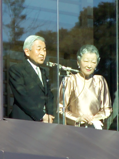 The imperial couple, Emperor of Japan on his 72nd birthday, December 23, 2005. Kokyo Kyuden (Tokyo, Japan).